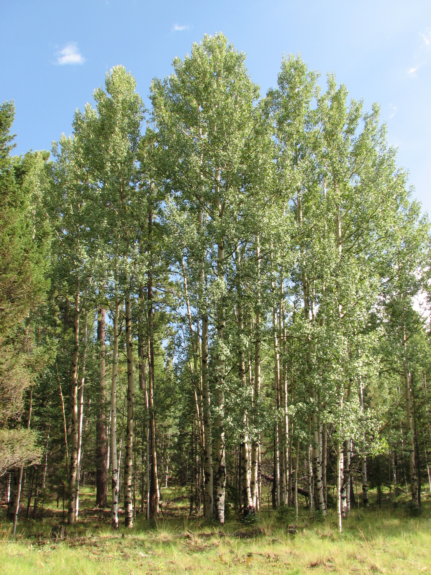 Aspens in Greer Uploaded on October 9, 2007 by mmechtley